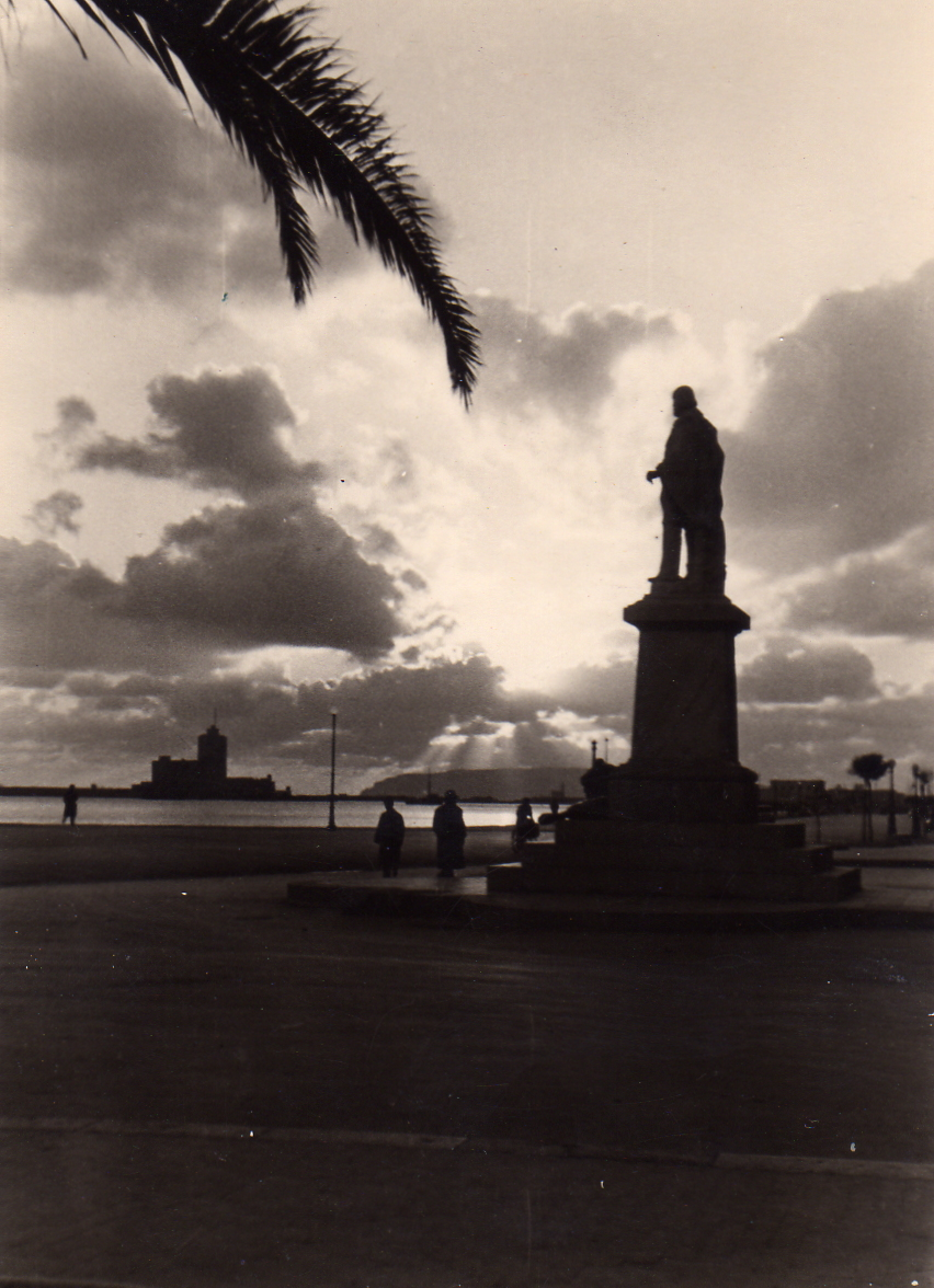 Trapani (Sicily)